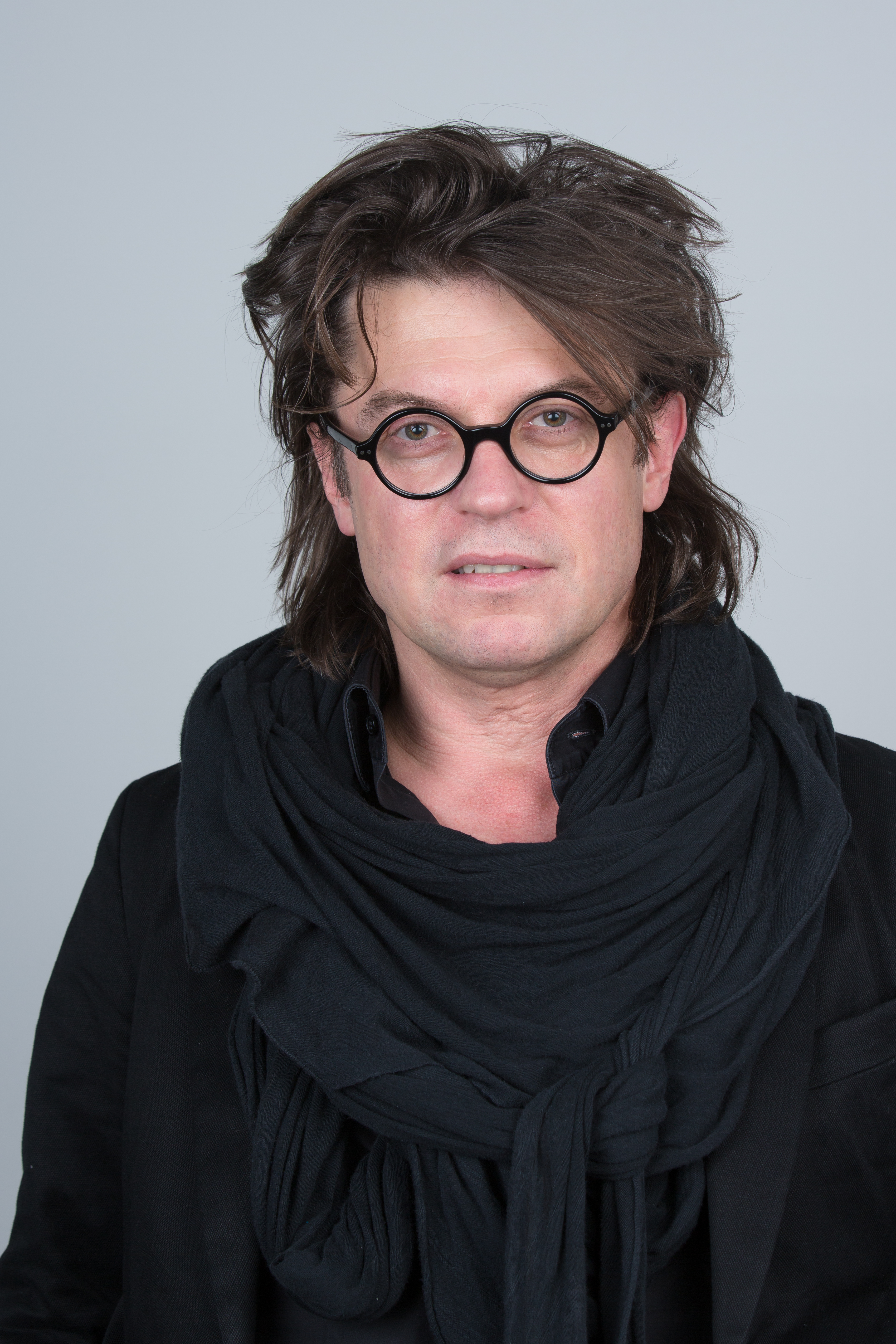 Austrian costume designer Thomas Oláh (Künstlerhaus, Vienna, Austria).